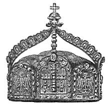 Drawing of the 19th century crown of the Second German Empire.